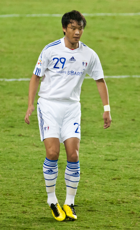 Kwak Hee-Joo playing for Suwon Bluewings in the 2011 Asian Champions League against Sydney FC in Sydney, Australia.